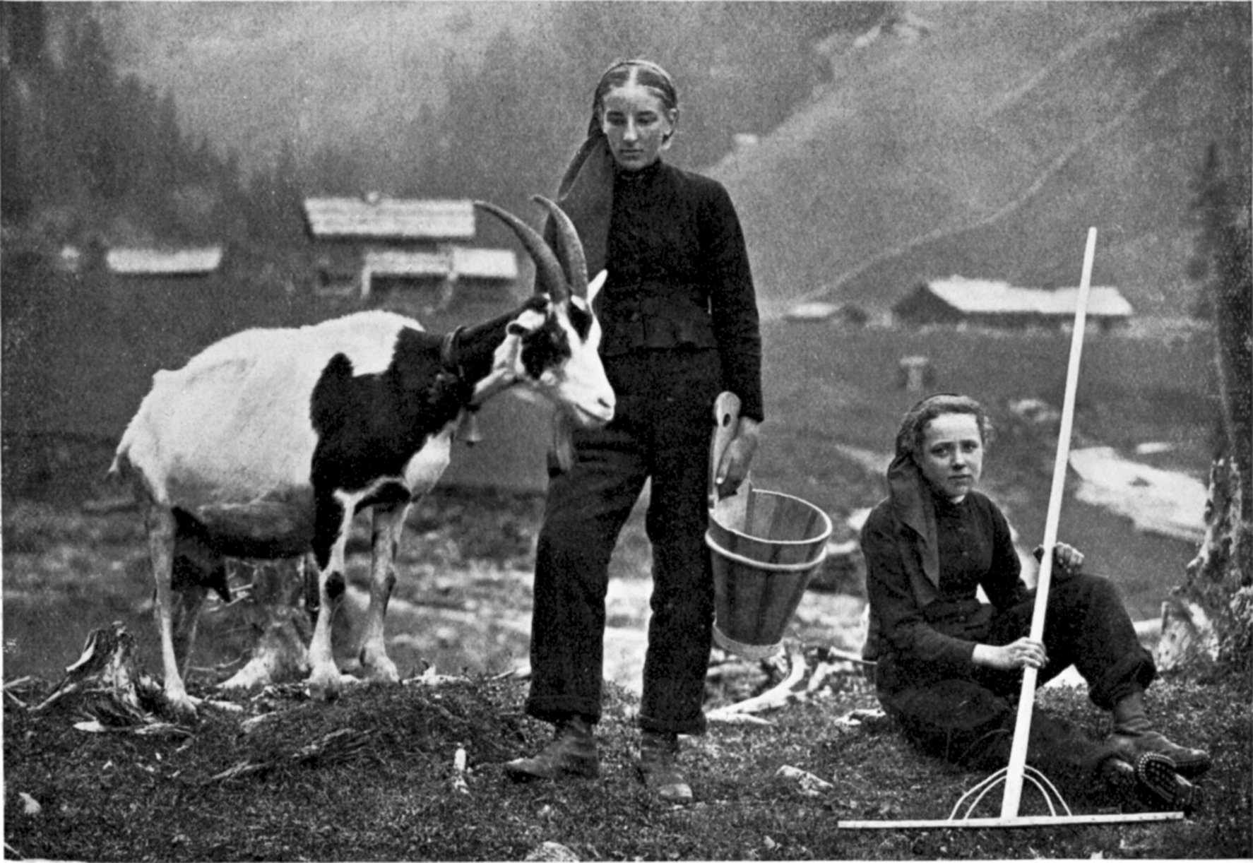 A curious costume, Champery The women of this district have for a long time worn a dress which combines elegance with the freedom of movement necessary in their calling The scarlet kerchief, with its ends hanging over the shoulders, makes a very striking head-dress.